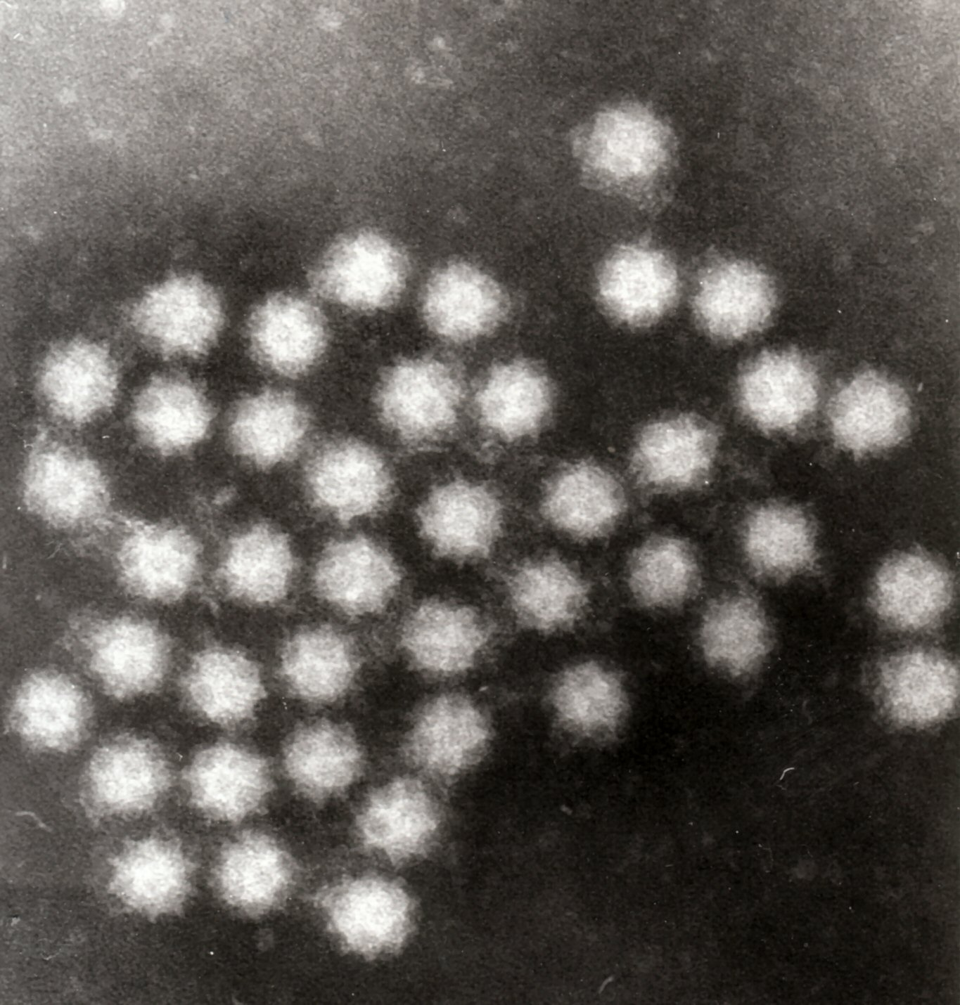 Transmission electron micrograph of human multiple particles of human caliciviruses. Each particle is about 30 to 40 nanometers in diameter. The process of preparing viruses for observation by electron microscopy causes some drying and thus shrinkage.